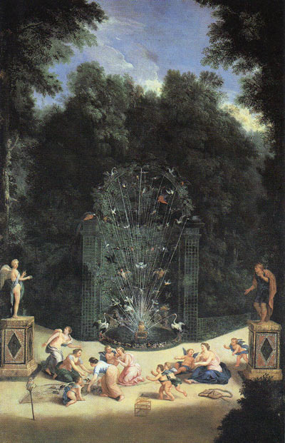 John Cotelle the younger's painting of the entrance to the labyrinth at Versailles